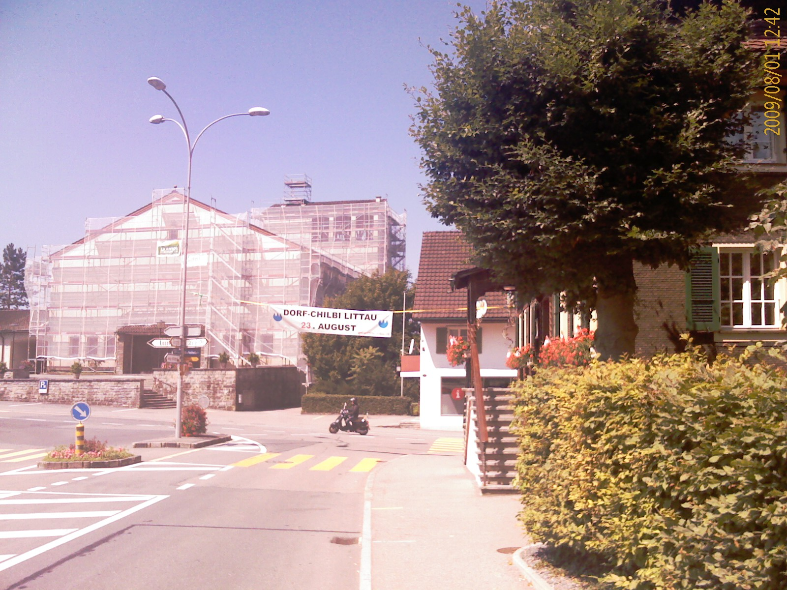 Church of Littau, canton of Luzern, SwitzerlandEsperanto: Preĝejo de Littau, Kantono Lucerno, Svislando